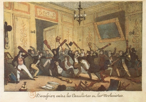 "La Guitaromanie" - Discusion